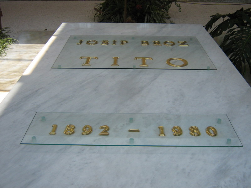 Josip Broz Tito tomb